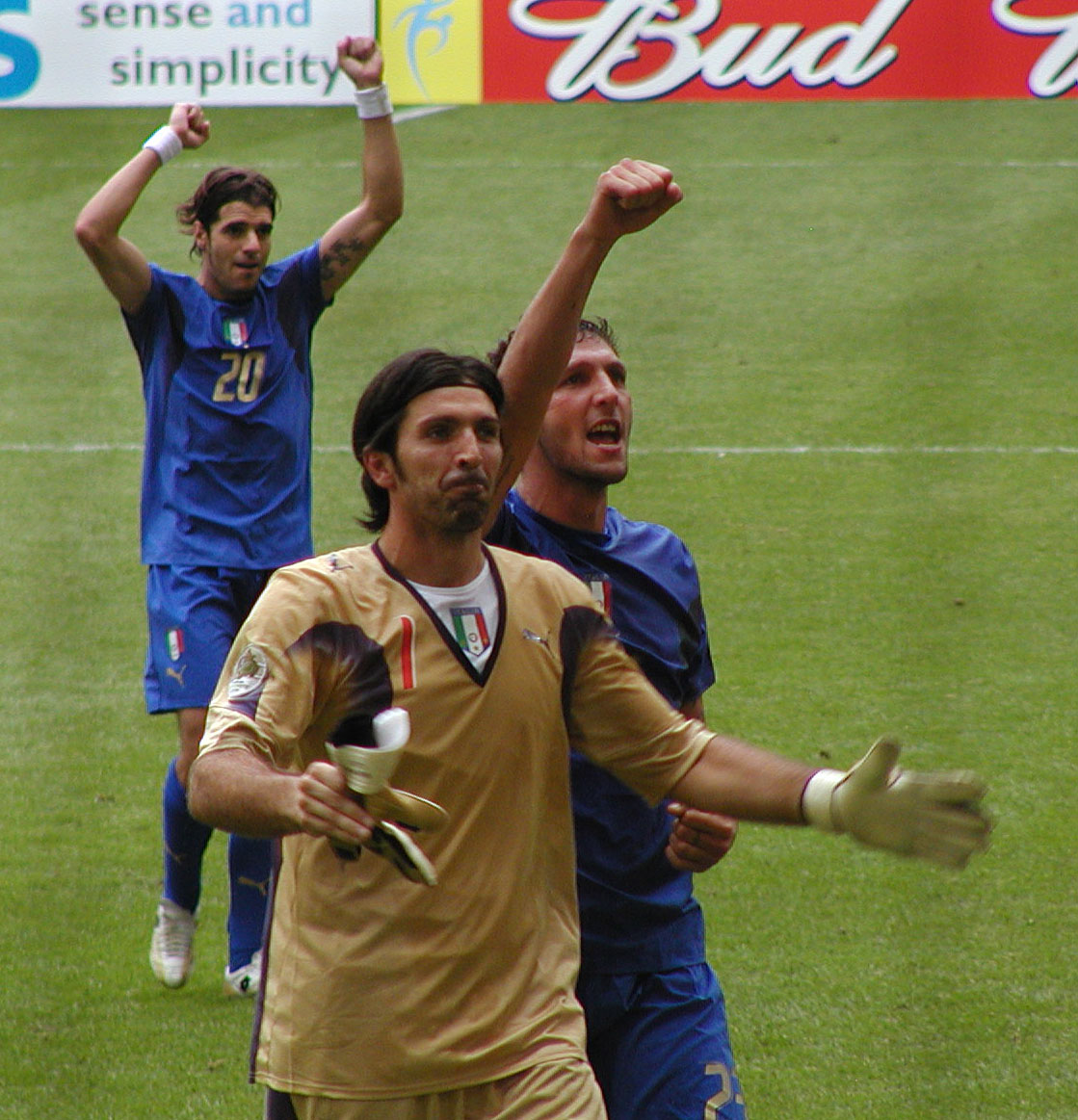 2006 FIFA World Cup, Germany. Italian national football team. Goalkeeper Gianluigi "Gigi" Buffon (n. 1), defender Marco Materazzi and midfielder Simone Perrotta (n. 20).